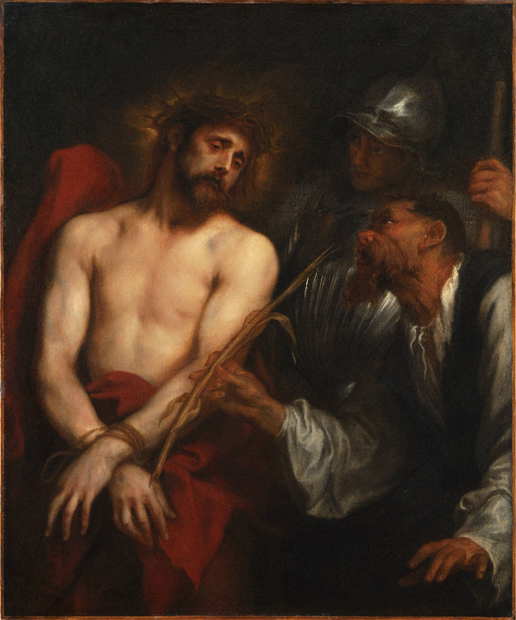 Anthony van Dyck, Flemish, 1599–1641 The Mocking of Christ, 1628–30 Oil on canvas 112 x 93 cm. (44 1/8 x 36 5/8 in.) frame: 134.6 x 116.2 x 8.9 cm. (53 x 45 3/4 x 3 1/2 in.) Museum purchase, gift of the Charles Ulrick and Josephine Bay Foundation, Inc., through Colonel C. Michael Paul y1975-12